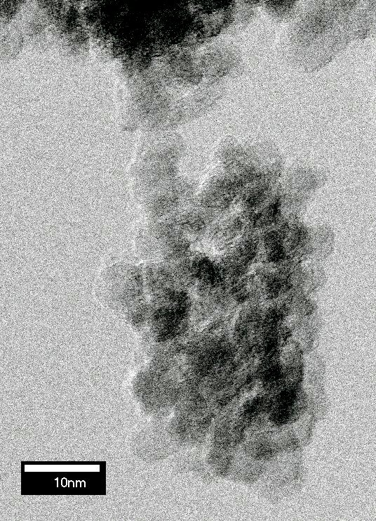 Scanning transmission electron microscope image of detonation nanodiamond